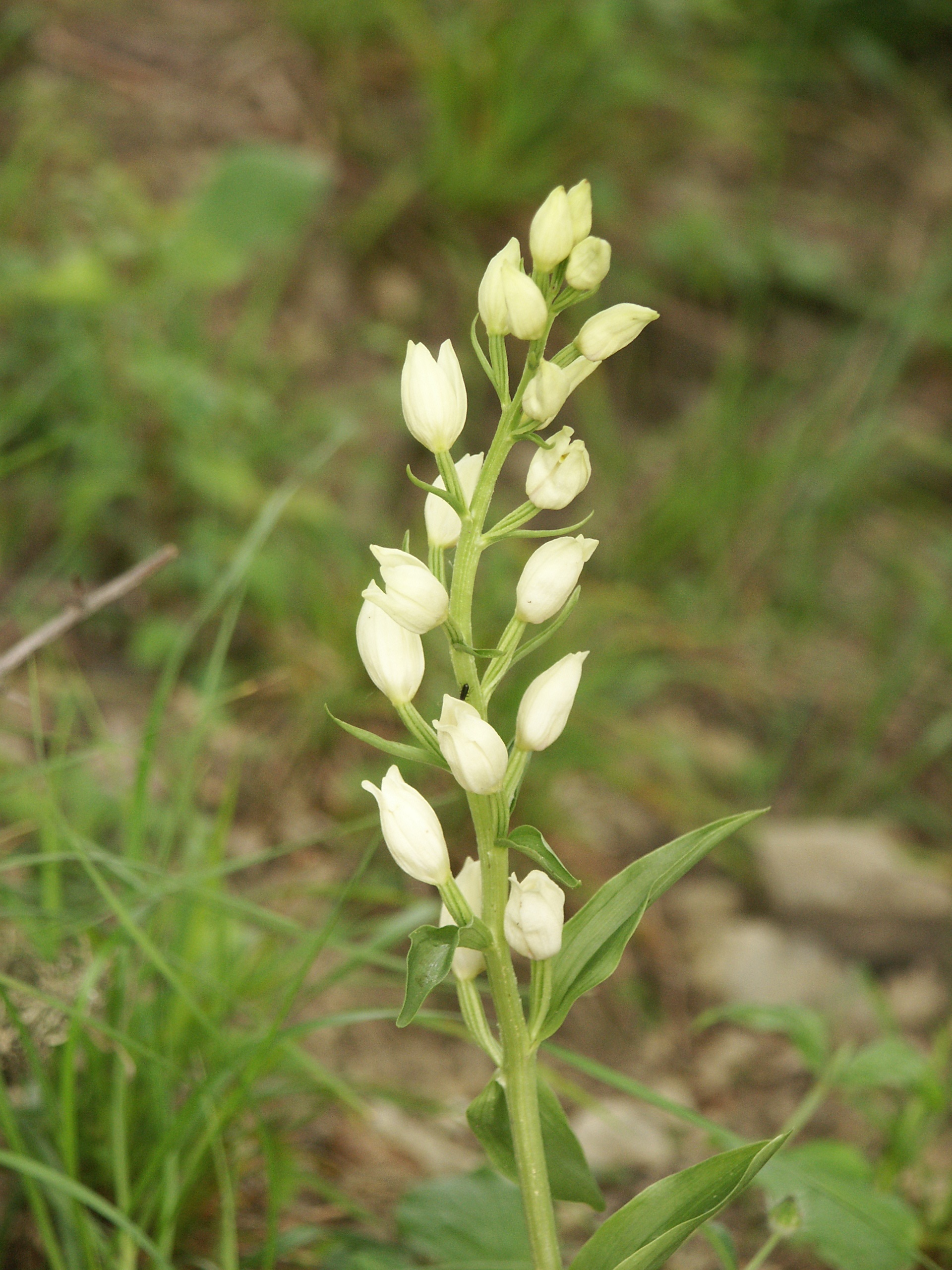 Cephalanthera damasonium, Hohenloher Land, Germany